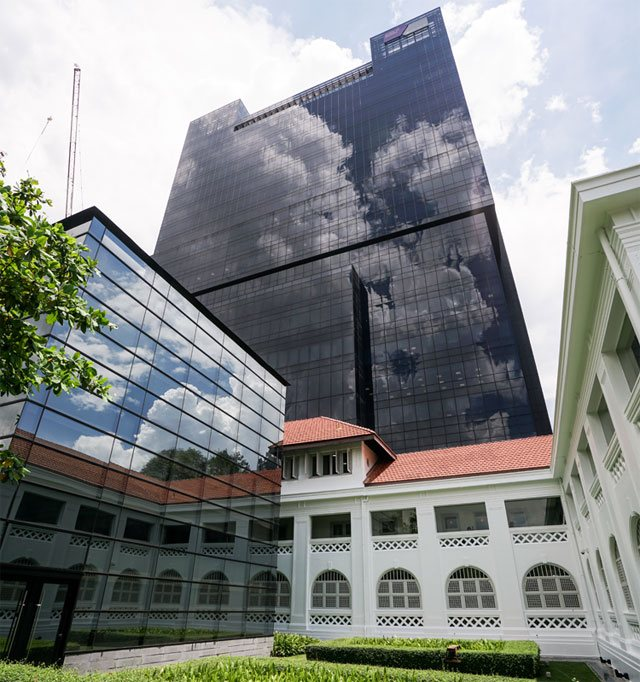 Clinical Sciences Building